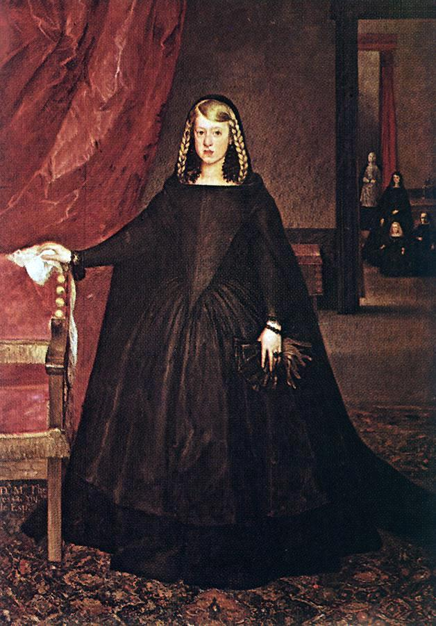 The sitter is Margaret of Spain, first wife of Leopold I, Holy Roman Emperor, wearing mourning dress for her father, Philip IV of Spain, with children and attendants in mourning dress.